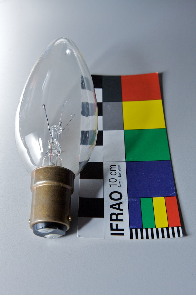 A blown 40w incandescent bulb with a B15d base.